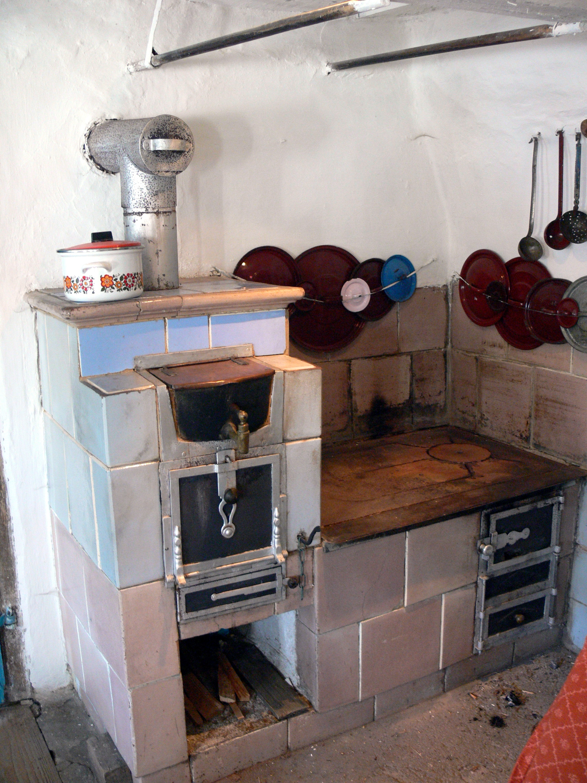 Brezerhaus in Sarleinsbach. Stove in the living room ( Stube )